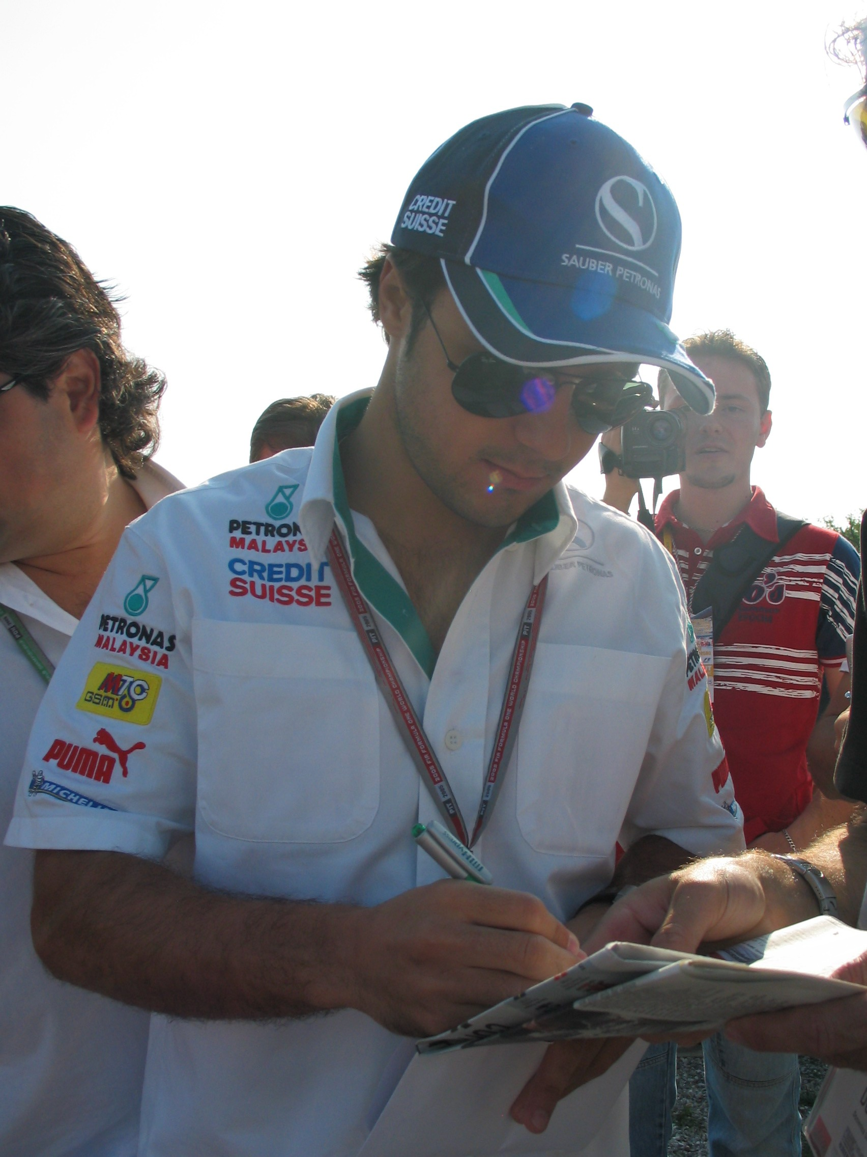 Felipe Massa signs autographs at the entry of Monza circuit in the morning of the 4th of September 2005, during the 76th Formula 1 Gran Premio d'Italia (Grand Prix of Italy). Released into the public domain by Ciro Natalizio (aka Ayrton83)